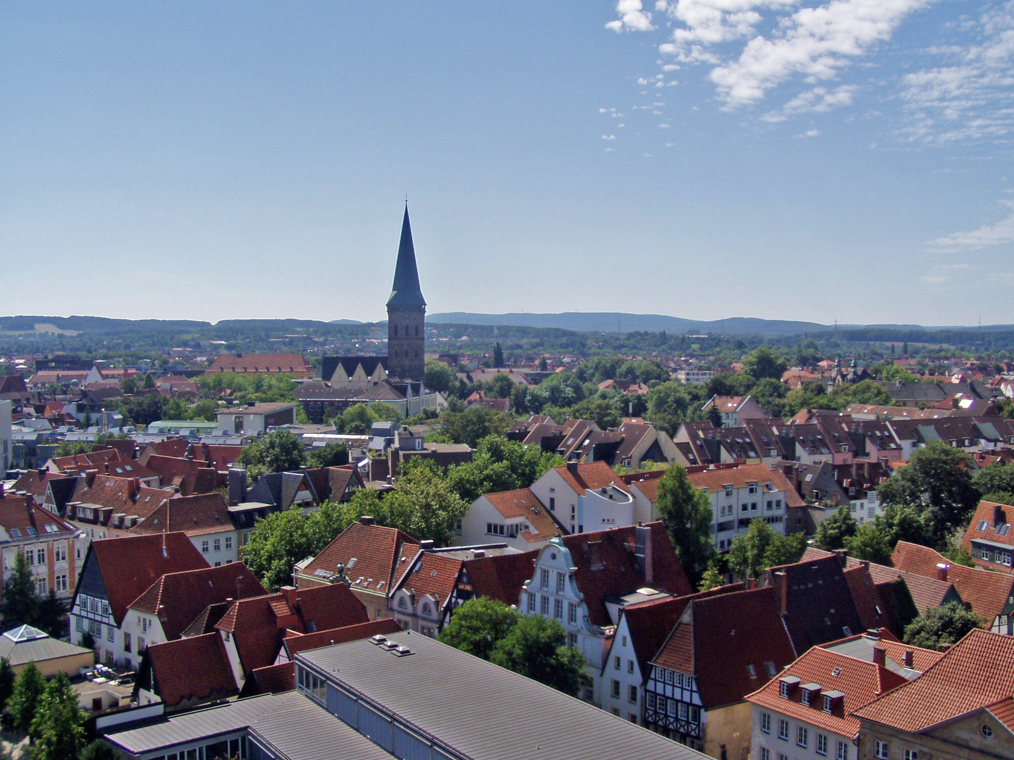 View over Southern Osnabrück.